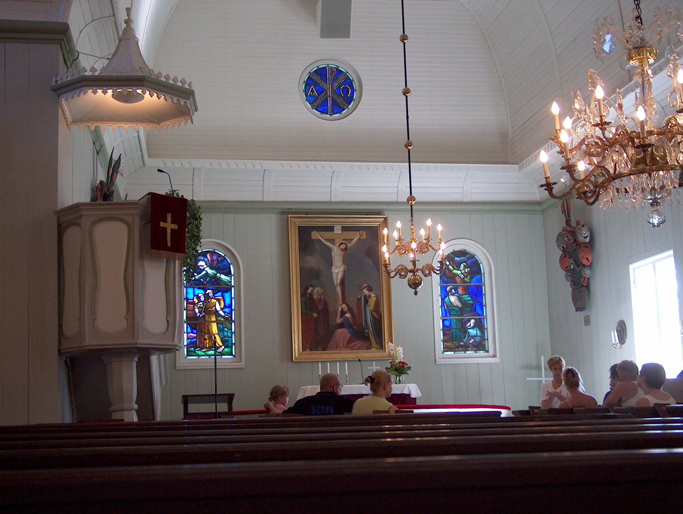 The interior of Tuusula church